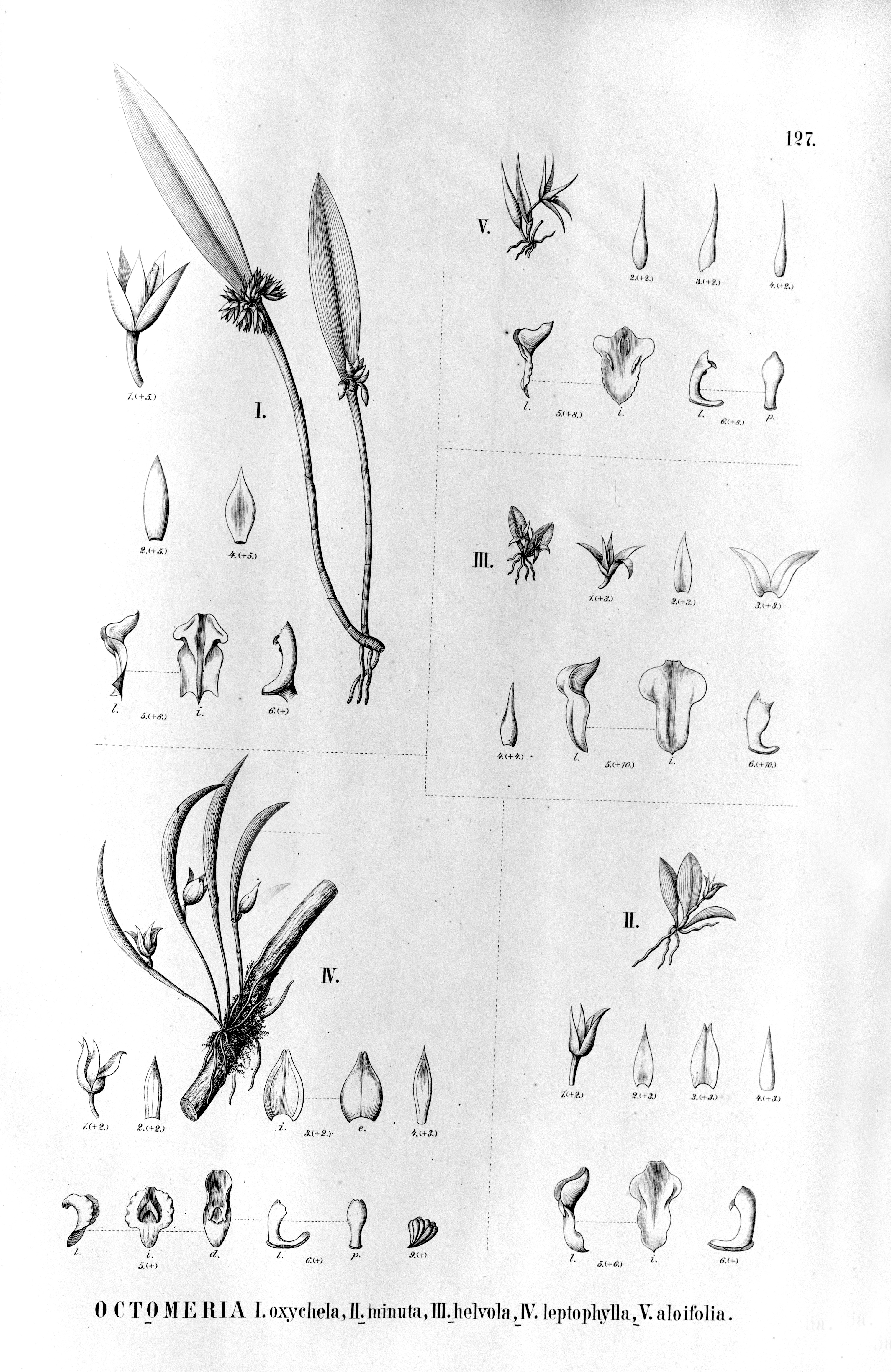 Illustration of I. Octomeria oxychela II. Octomeria minuta III. Octomeria helvola IV. Octomeria leptophylla V. Octomeria aloifolia (or Octomeria aloefolia)